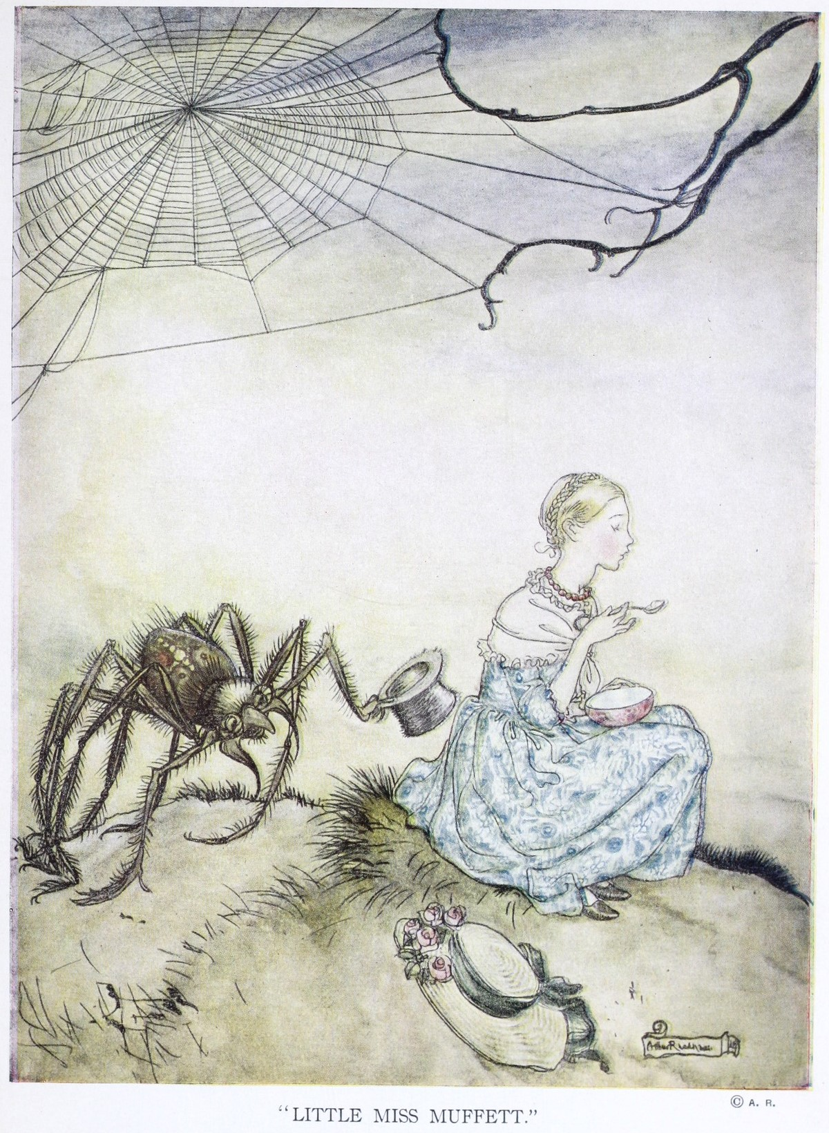 "Little Miss Muffet" by Arthur Rackham, from the nursery rhyme of the same name, from the 1913 book Goose - The Old Nursery Rhymes (link to page).